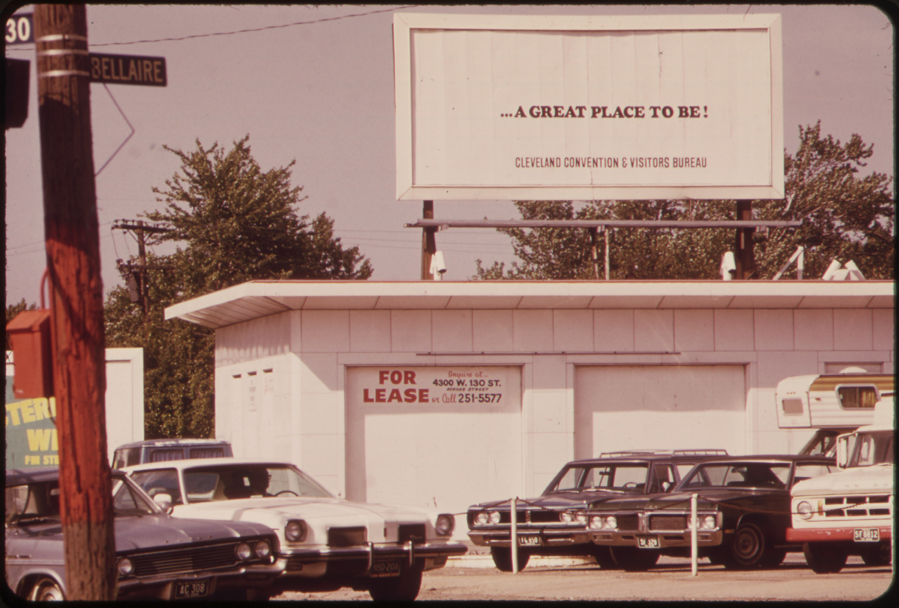 General notes: Probably 13011 Bellaire Rd; street signs for 130 and Bellaire visible and sign on building refers to 4300 W. 130 St. "across street" (note added 2017)